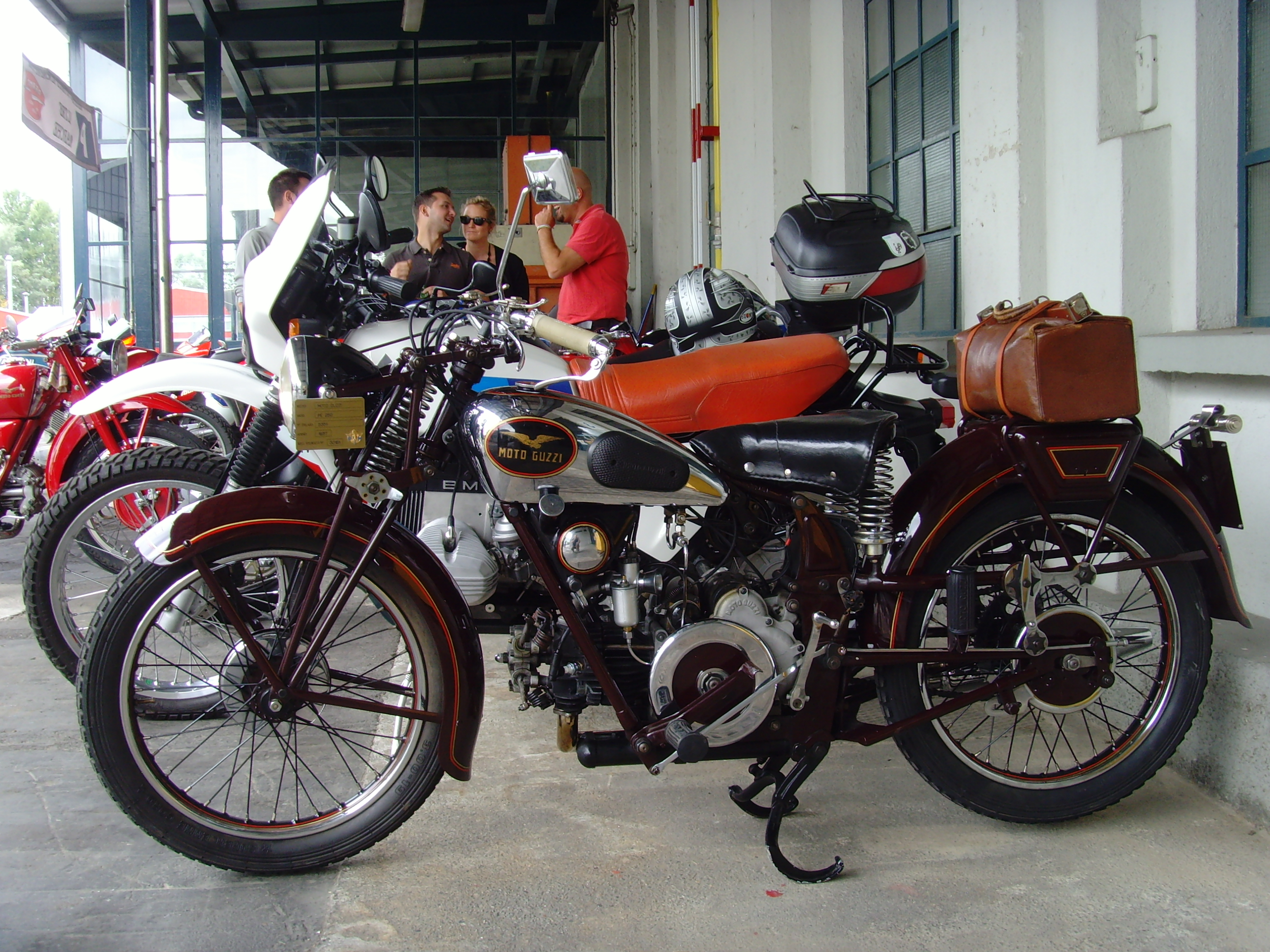 Moto Guzzi PE 250, 1937